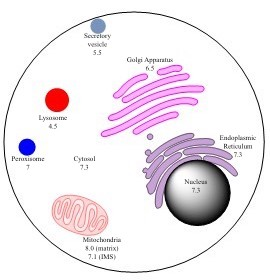 A cell with several important organelles and their various pHs.